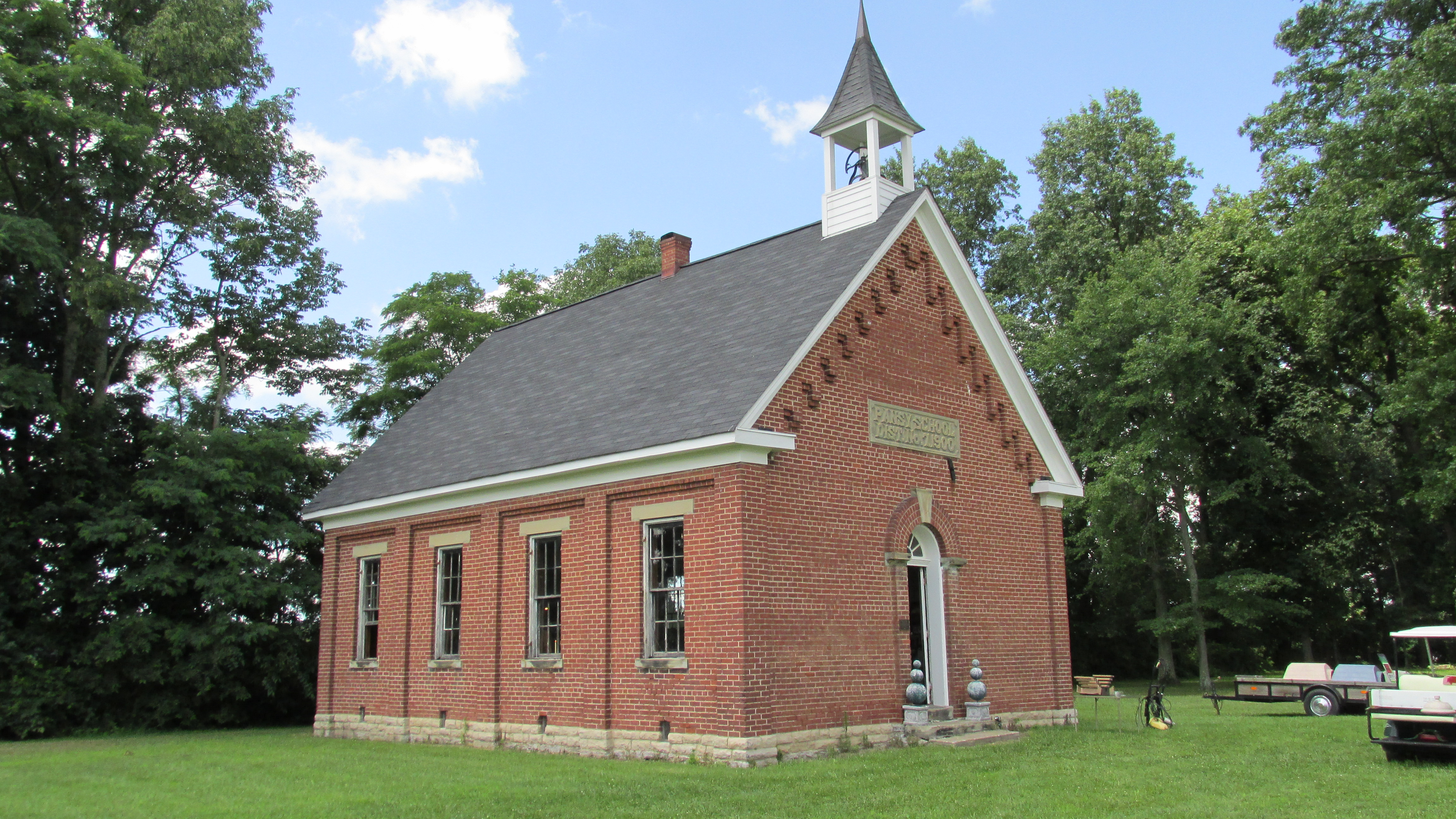 The Pansy School located in Clinton County, Ohio.